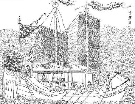 An illustration of a two-masted Chinese junk ship, from the Tiangong Kaiwu encyclopedia of 1637, written by the Ming Dynasty encyclopedist Song Yingxing (1587-1666). The original picture is on page 173 of E-tu Zen Sun and Shiou-Chuan Sun's translation of Song Yingxing's Tiangong Kaiwu (Pennsylvania State University Press), while this picture is from the Qing Dynasty edition.